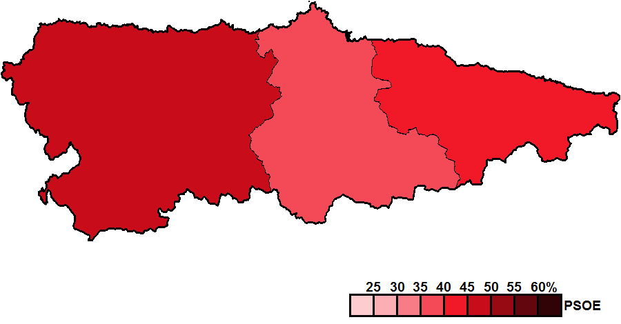 District results for the 1987 Asturian regional election.